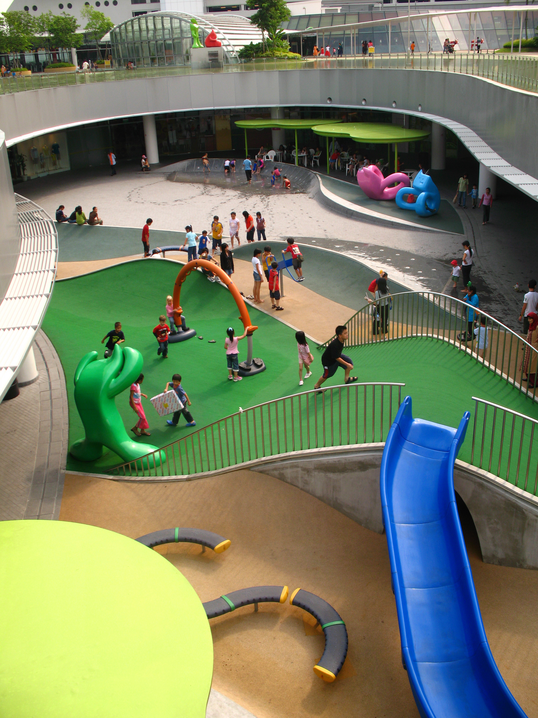 VivoCity, Singapore. Another big boy in the retail market providing shoppers with almost anything they need including a huge playground for the kids.